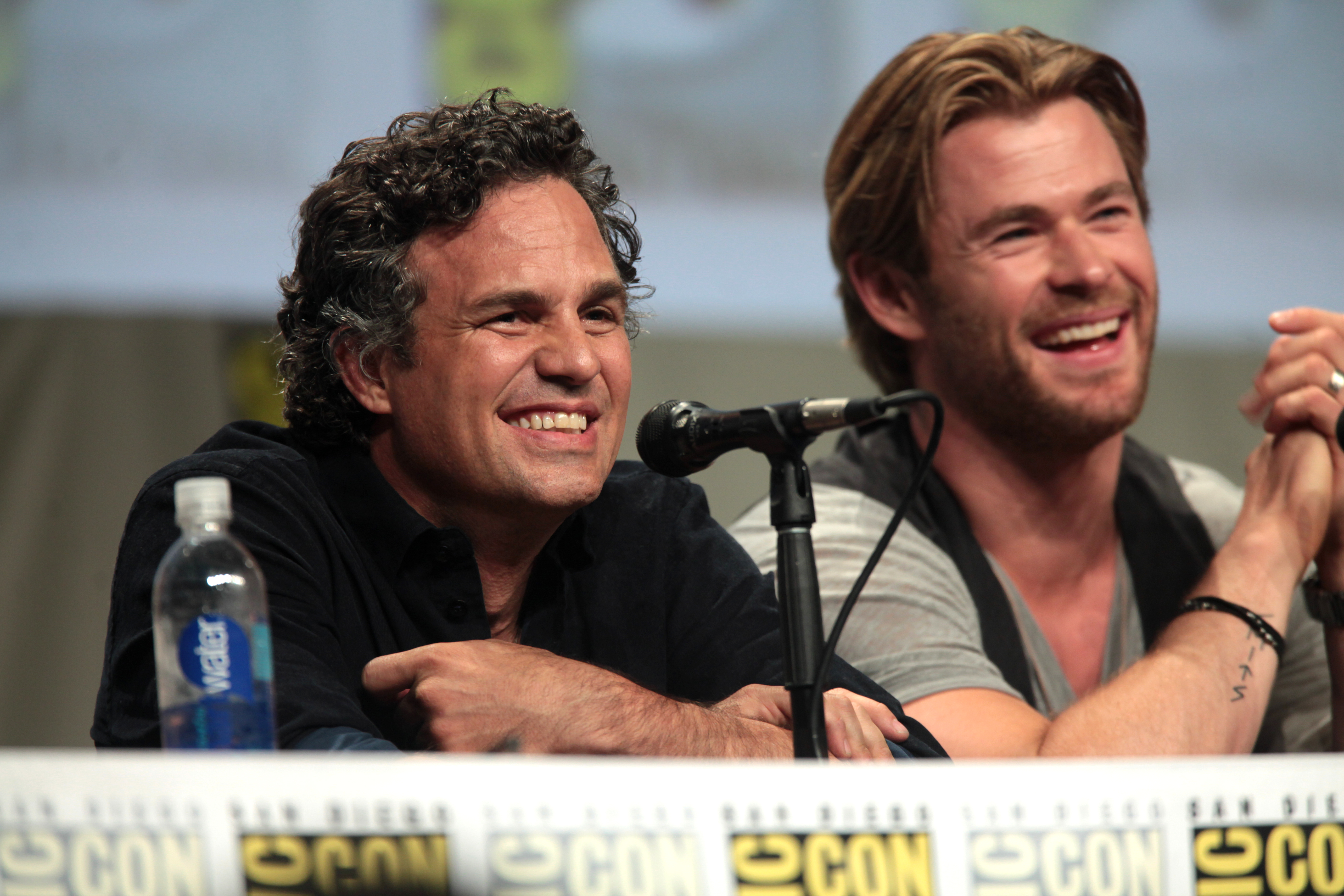 Mark Ruffalo and Chris Hemsworth promoting the film Avengers Age of Ultron at the 2014 San Diego Comic Con International.